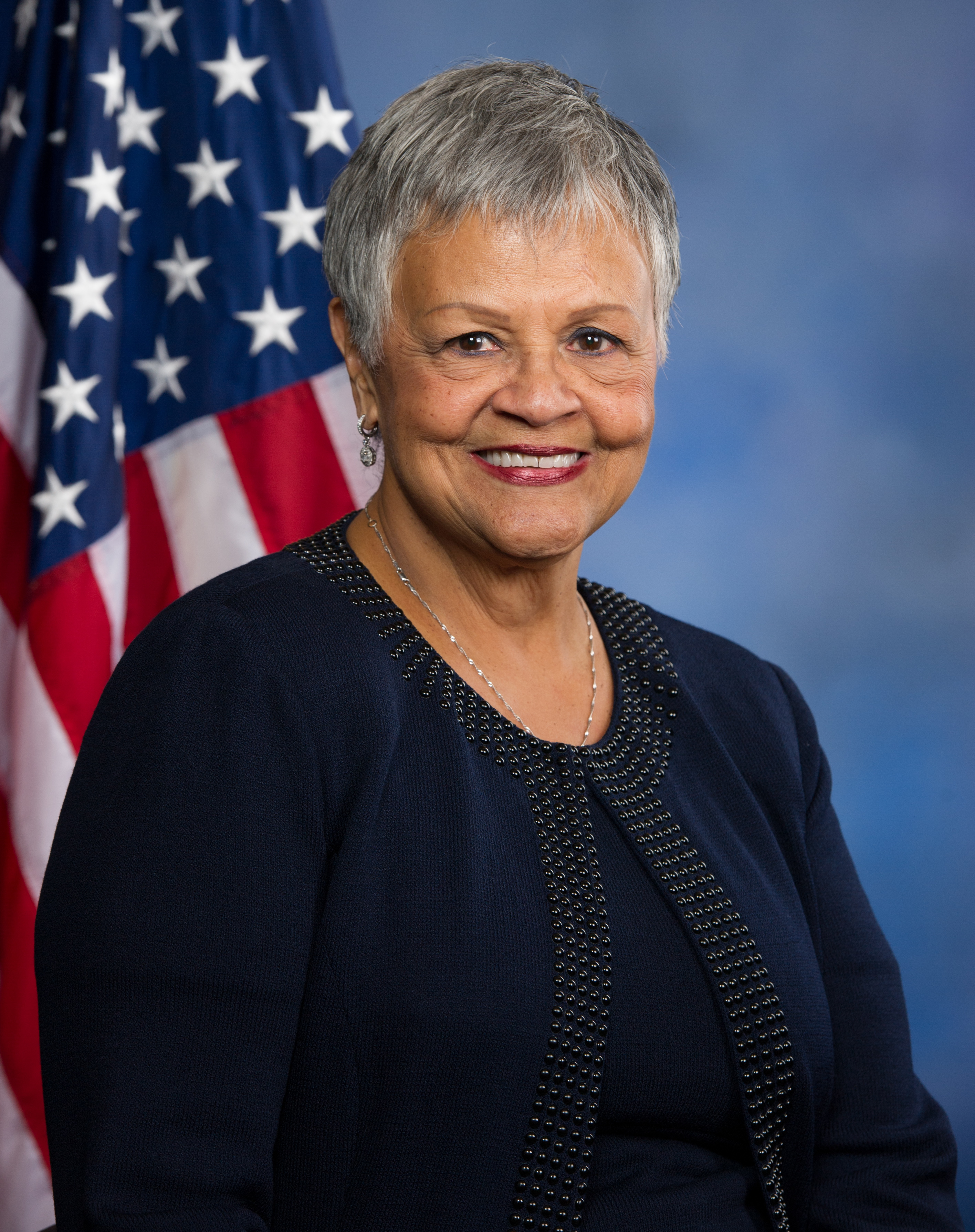 Bonnie Watson Coleman official Congress portrait.